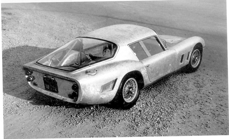 ASA 1000 GTC ca. 1963